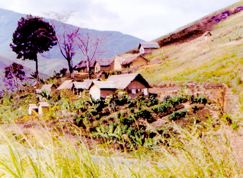 Village in Eastern Highlands Province, Papua New Guinea